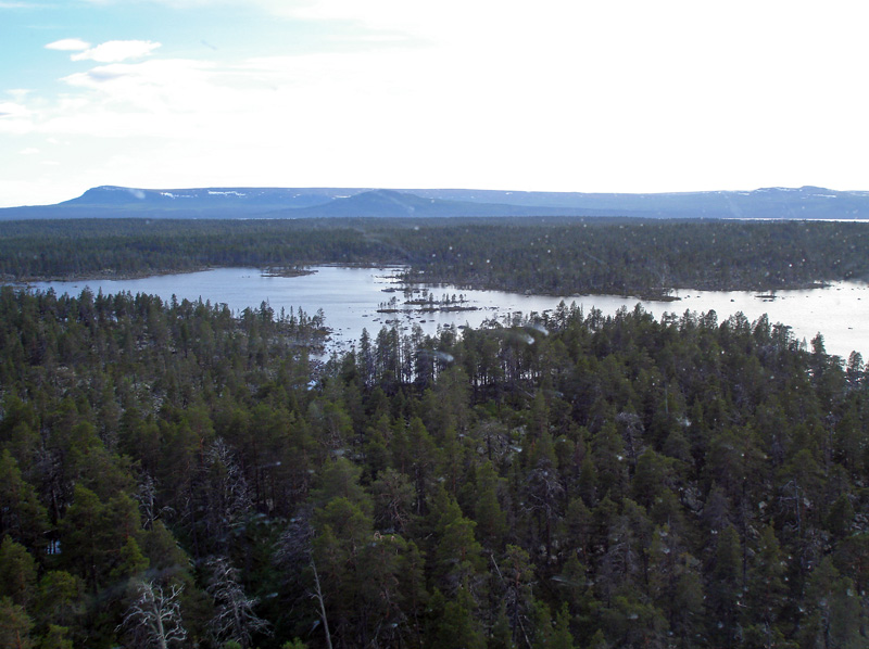 Aerial view of lake Hålkåsjaure in Tjeggelvas natur reserve, Norrbotten county, Sweden, with a view towards the SW.